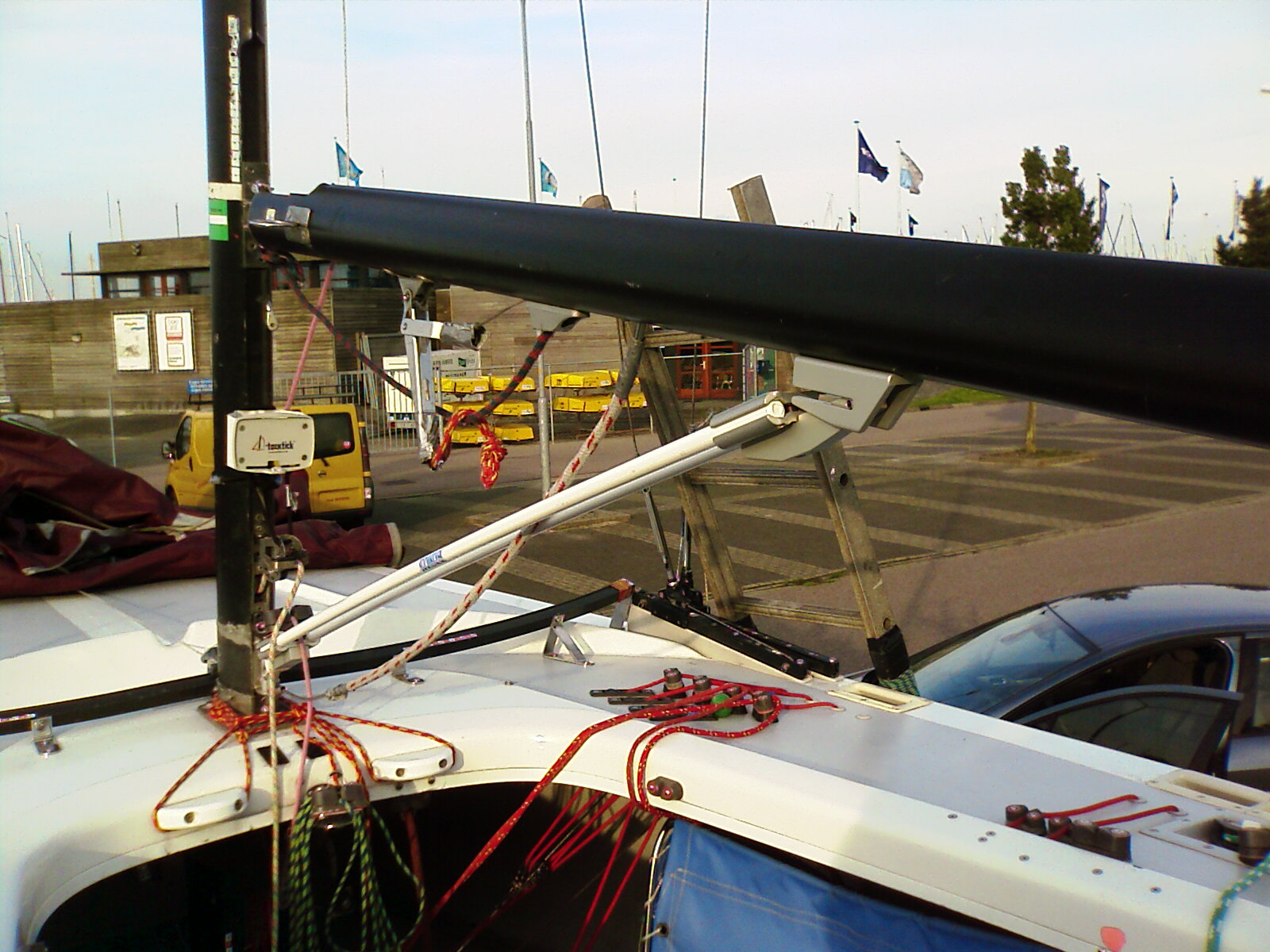 A Boomkicker is a mechanical device in sailing that pushes the boom upwards. This picture shows the boomkicker without tension.